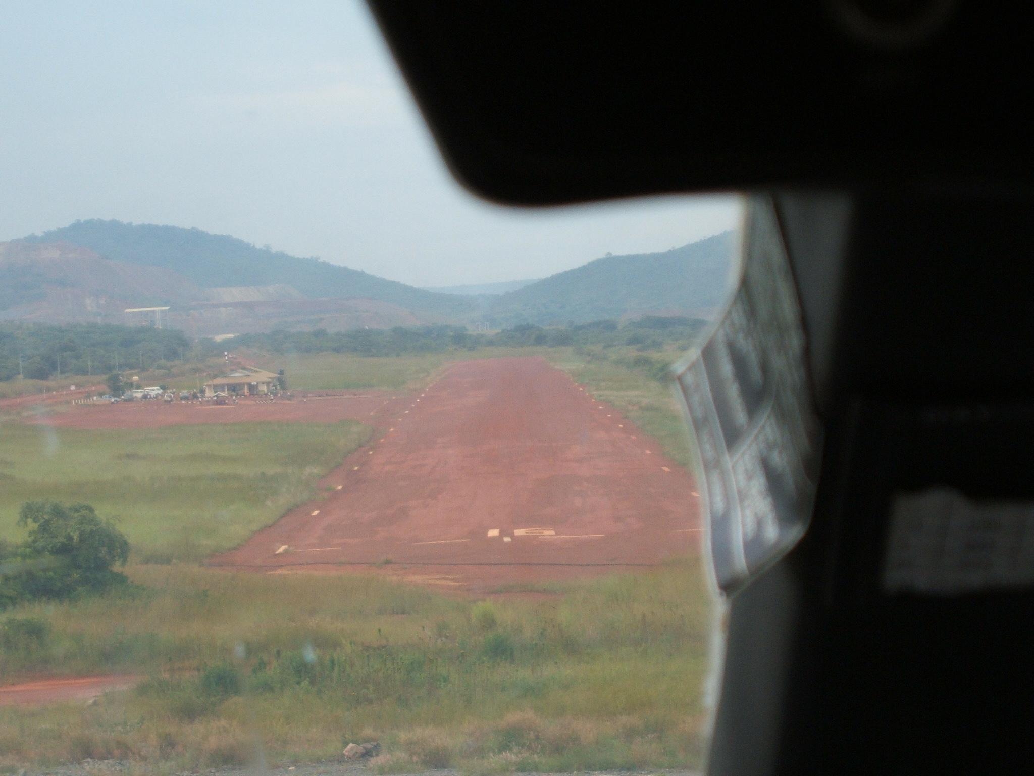 Geita